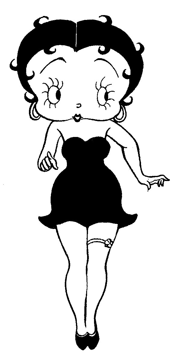 Here is a colored version of this drawing.Betty Boop character design, figure 1 from U.S. patent application D86224 "Design for a Doll or Similar Article".